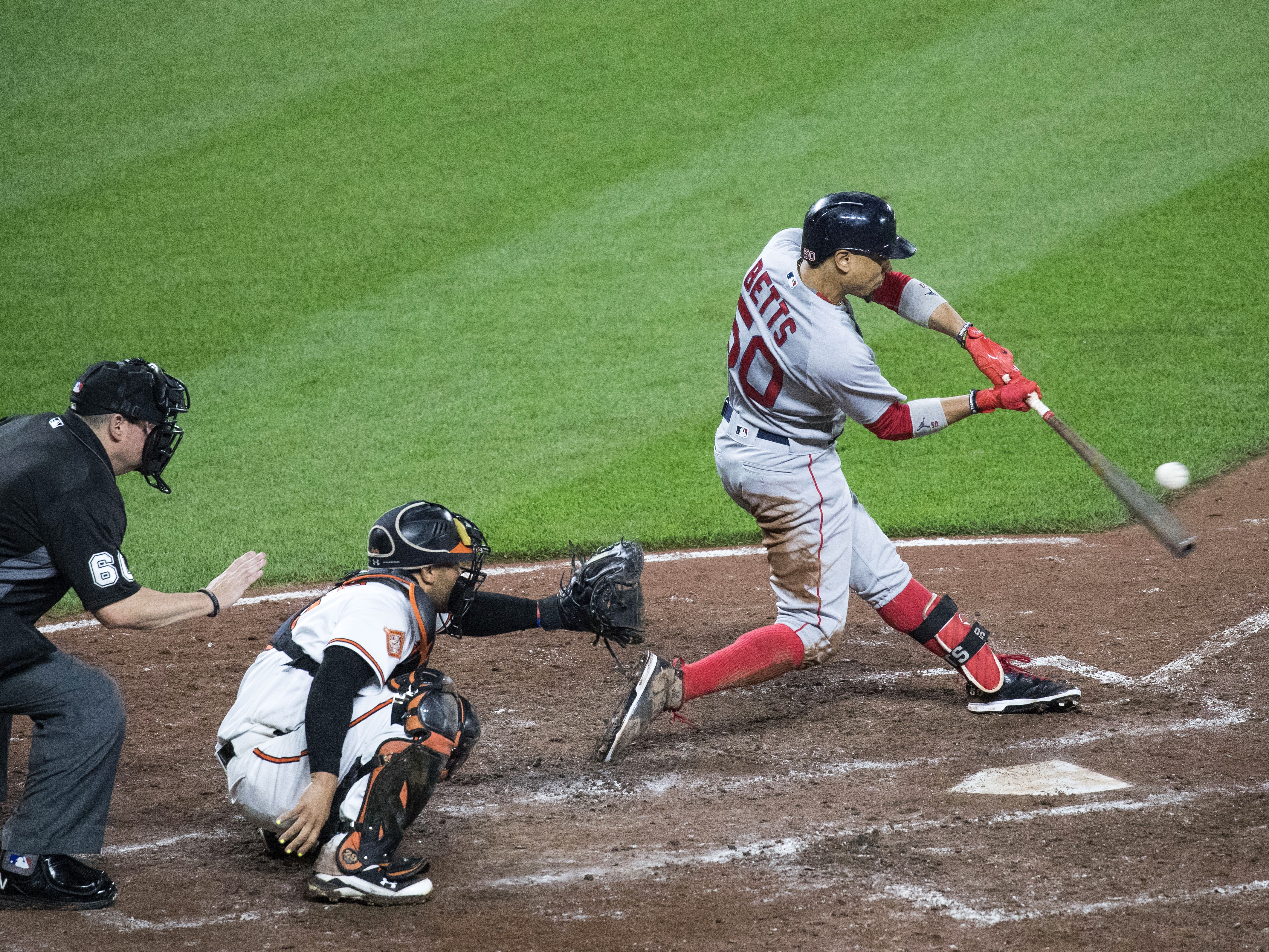 Red Sox at Orioles 9/18/17